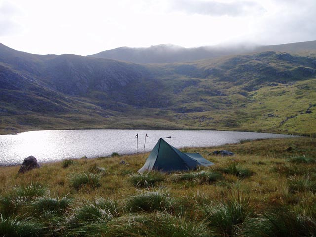 Llyn Dulyn A tautological name, meaning 'Lake Black Lake'. It is looking quite black, even in the sunshine.